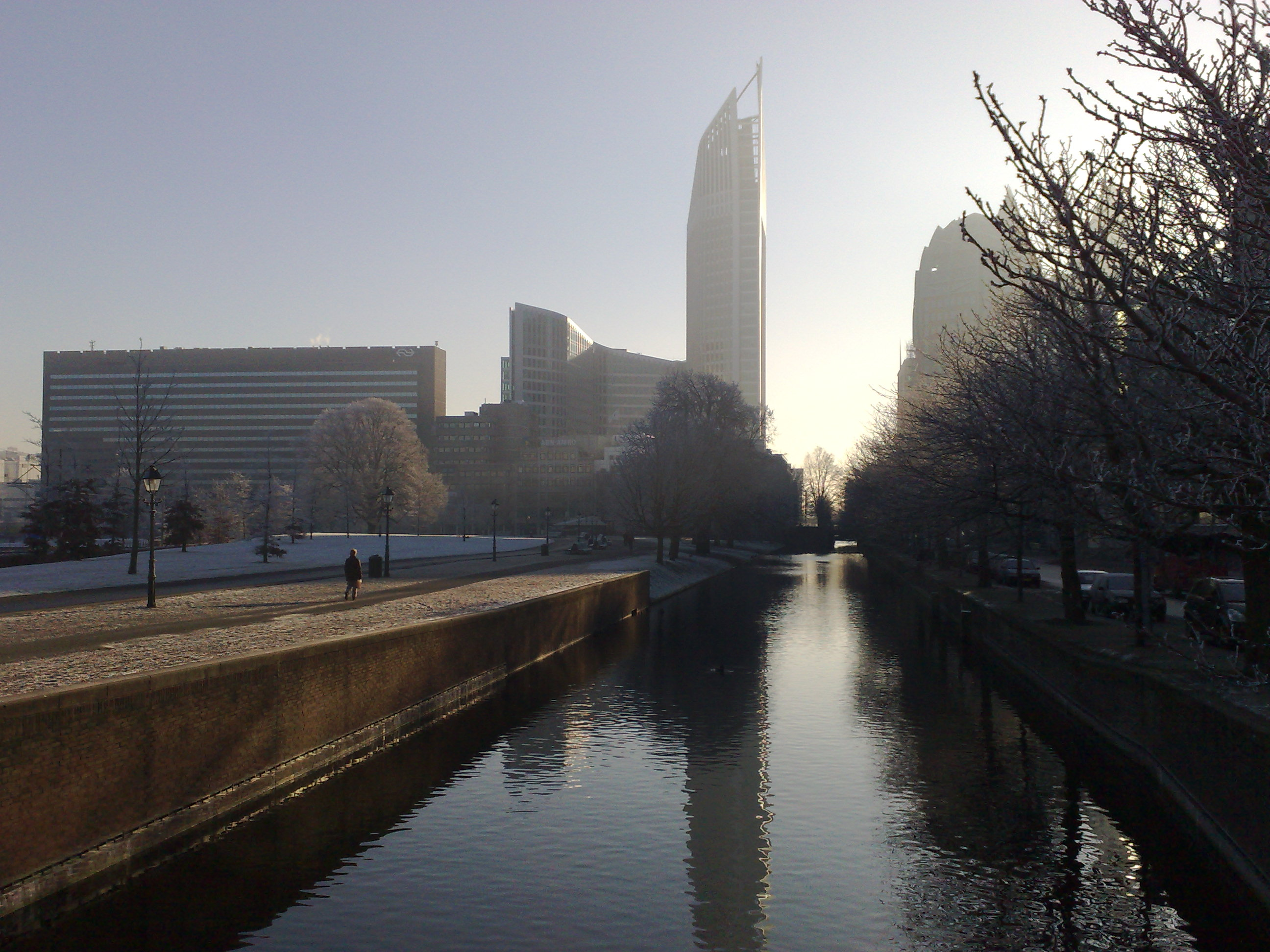 Skyline of the Hague, as it can be seen from the Koningskade, during a winter morning.